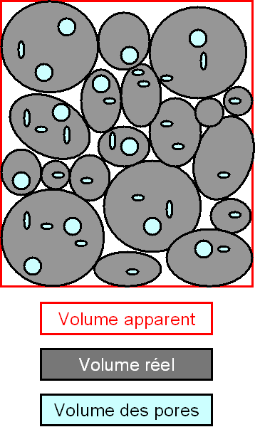 Description of the volumes which define the French densities for porous materials